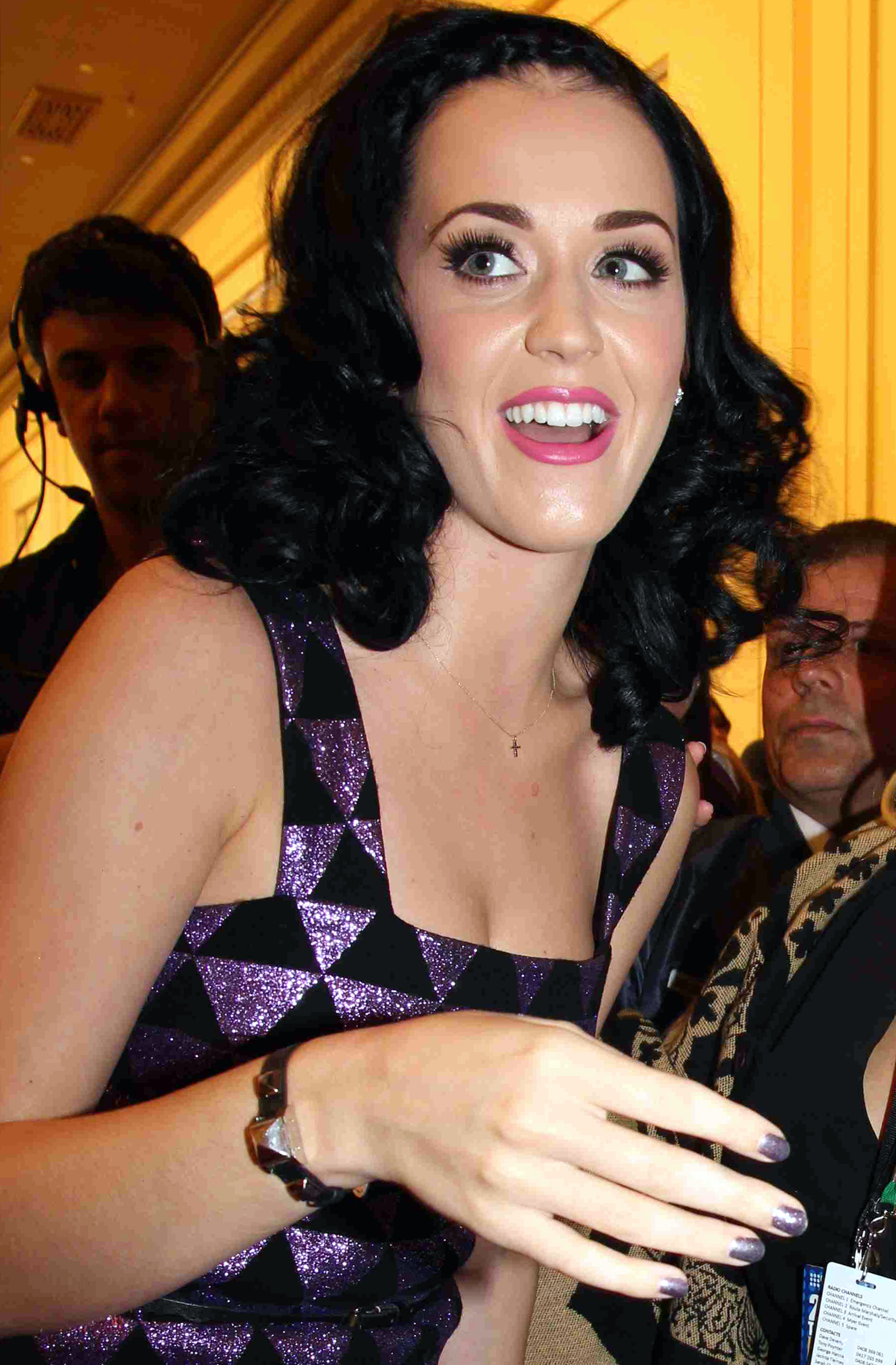 Katy Perry Fragrance Launch Purr 2011.